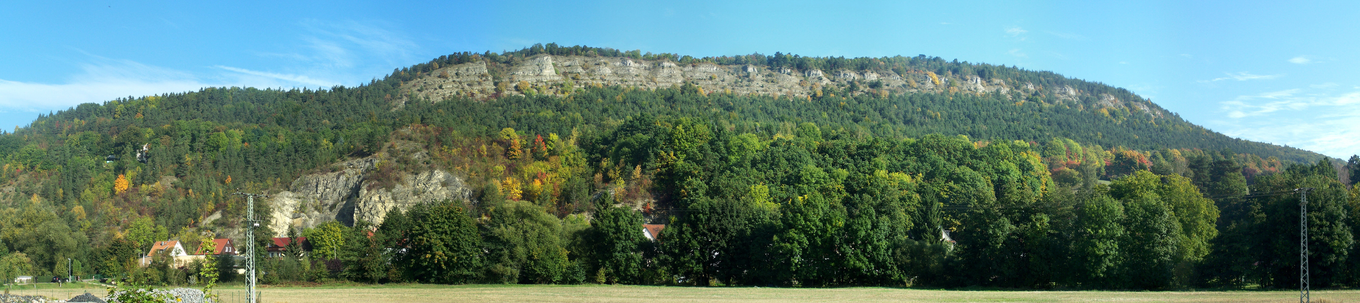 The Small Hoerselberg